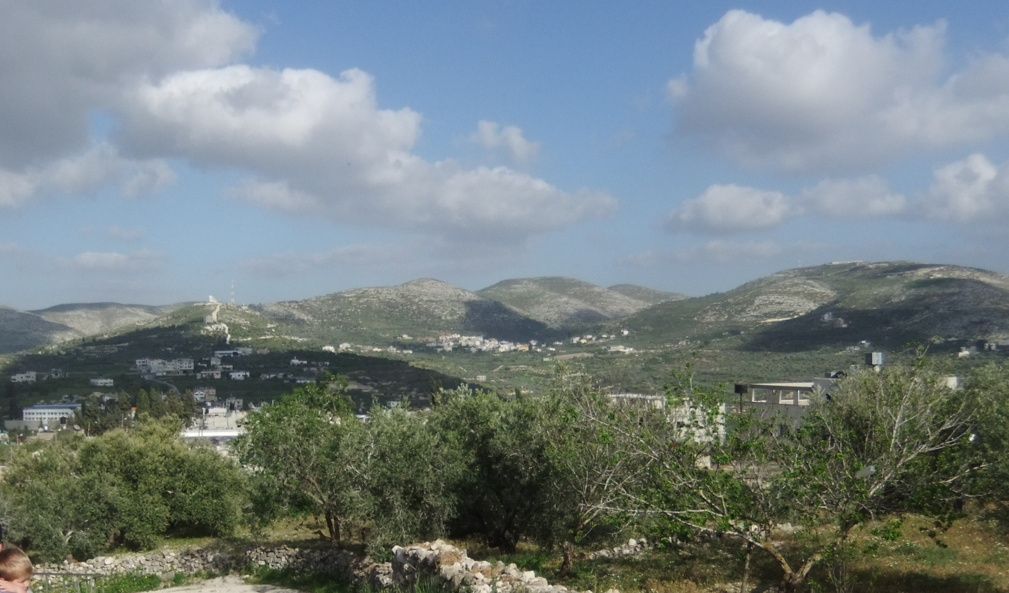 Ijnisinya in the center. On the left are the houses of Sebastia. Hidden behind the antenna is Nisf Jubeil. The picture was taken from Samaria.